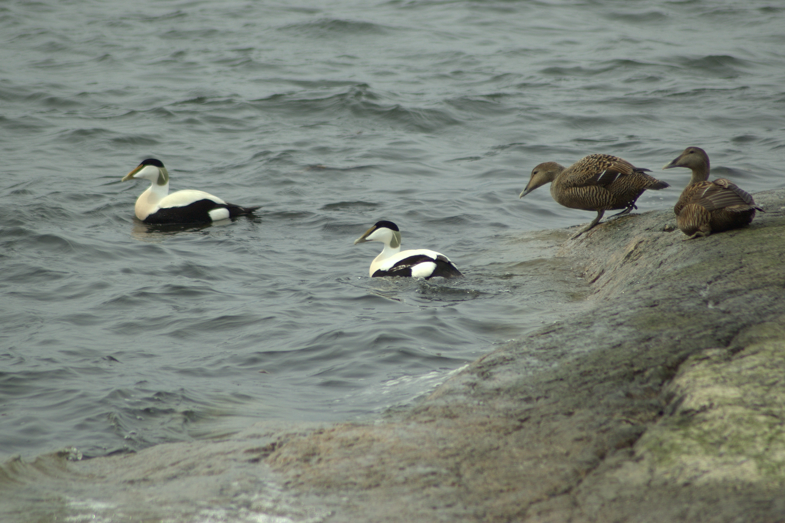 Birds of the species Somateria mollissima. en: Two male Common Eiders (the black and white ones in the water) and two females (still on land, browish in color). sv: Fyra stycken ejdrar. De svartvita i vattnet är hanar och de brunspräckliga på land är honor. Camera: Nikon D50 Location: Outside of the pier in the tiny harbour of "Hällsvik", along the coast of Hisingen just north of Gothenburg, Sweden.